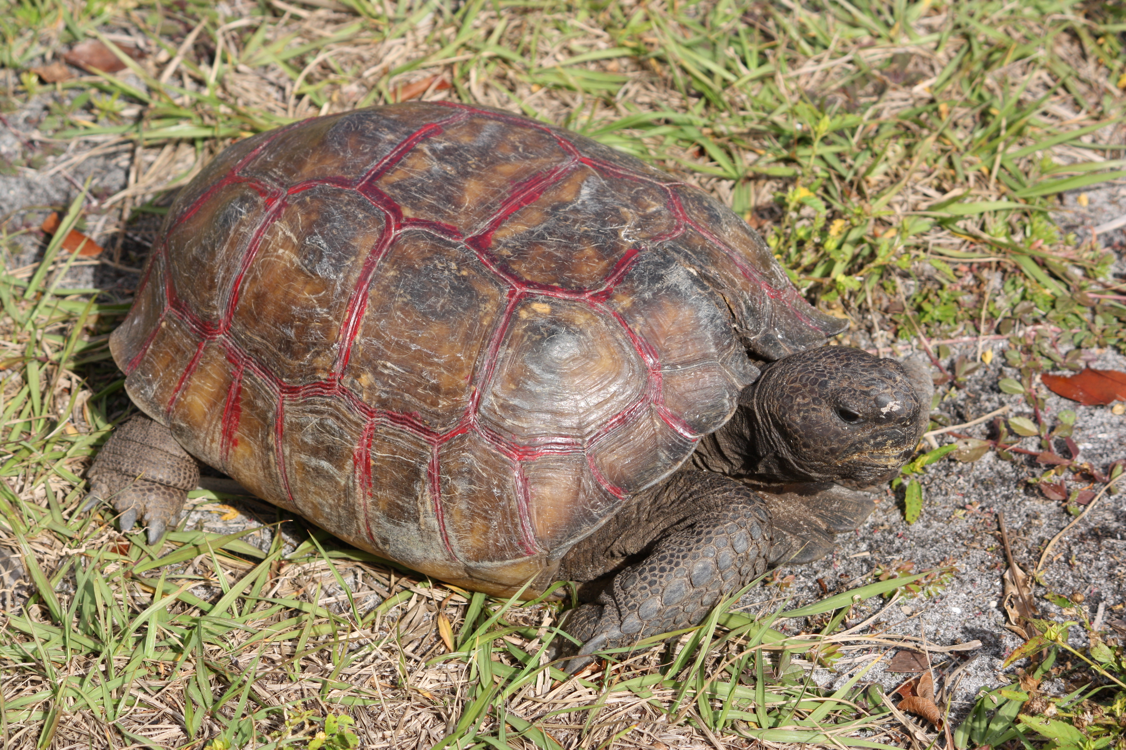 Gopher Tortoise (Gopherus polyphemus) at Ponce de Leon Park in Punta Gorda. The tortoise is in captivity at the nearby wilderness center, but occasionally allowed to walk out front in the sun. The red coloring was apparently added by children of the tortoise's former owner.